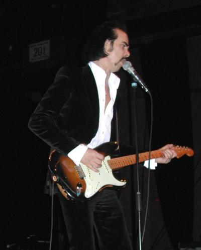 Nick Cave at a Grinderman performance in Mainz (Germany), November 11, 2006.